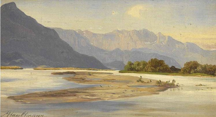 Wilder Kaiser und Kranzhorn am Inn (Painting in oil)